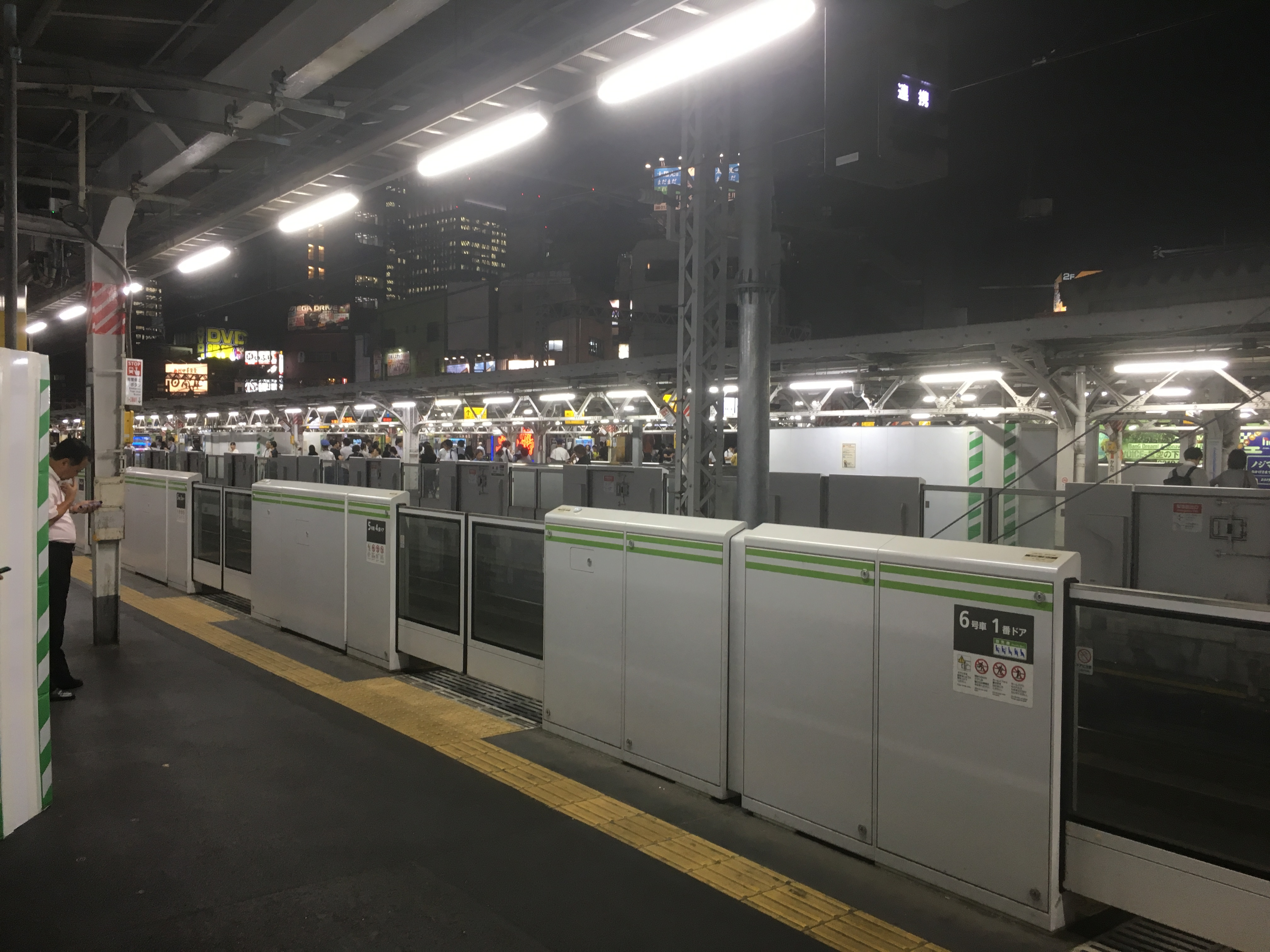 神田駅のホーム (Kanda Station platforms)